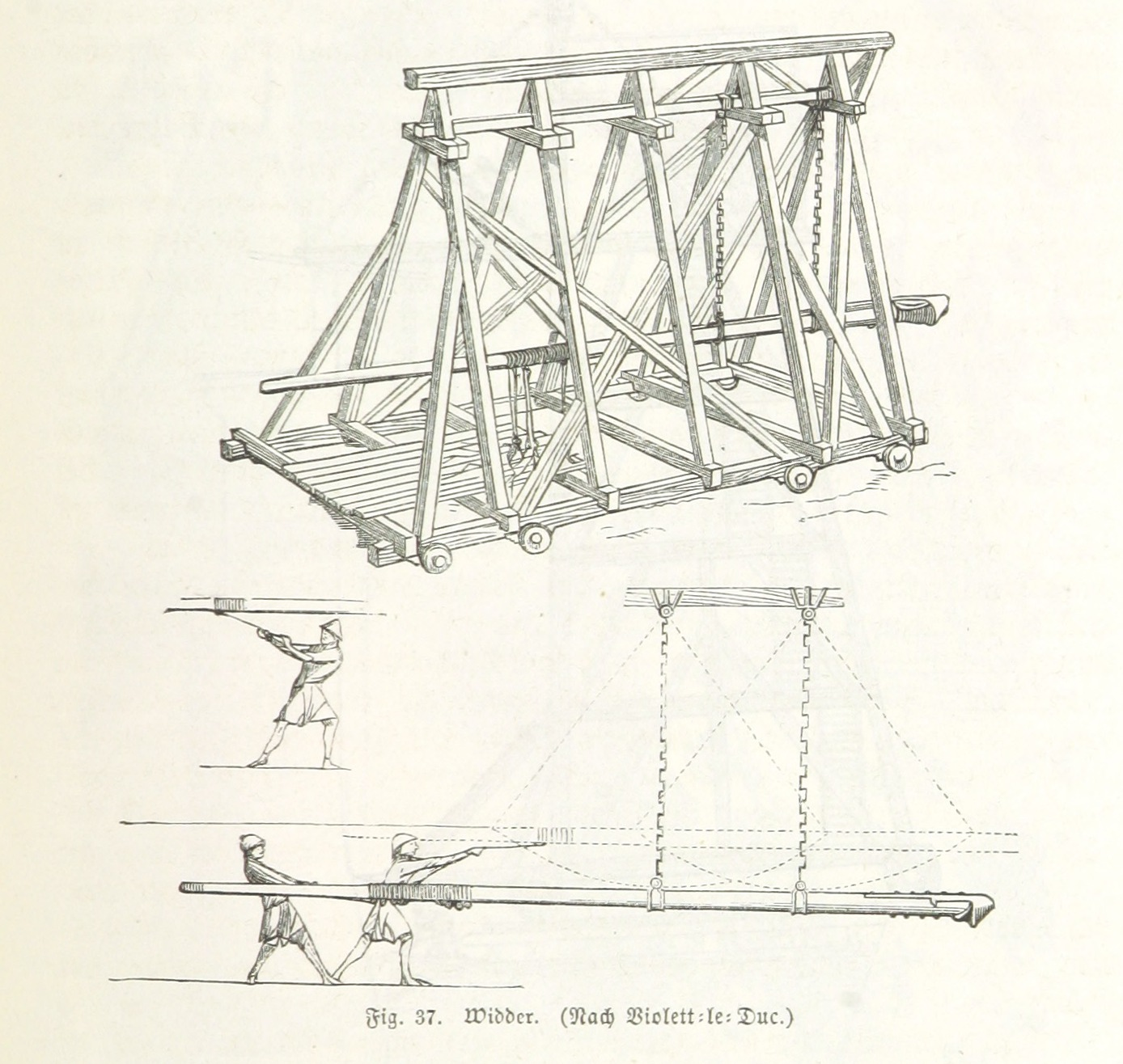 Image extracted from page 251 of Bilder aus der Deutschen Kulturgeschichte', by RICHTER, Albert - of Leipzig. Original held and digitised by the British Library. Copied from Flickr. Note: The colours, contrast and appearance of these illustrations are unlikely to be true to life. They are derived from scanned images that have been enhanced for machine interpretation and have been altered from their originals.